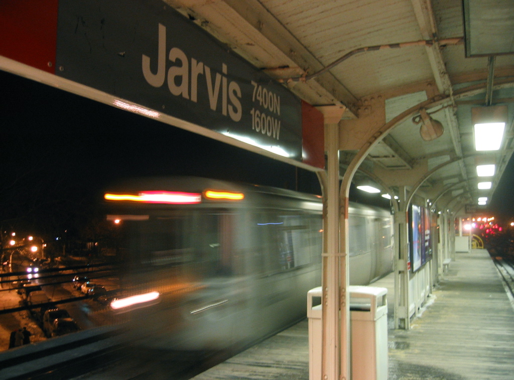 Jarvis Station on the CTA Red Line.